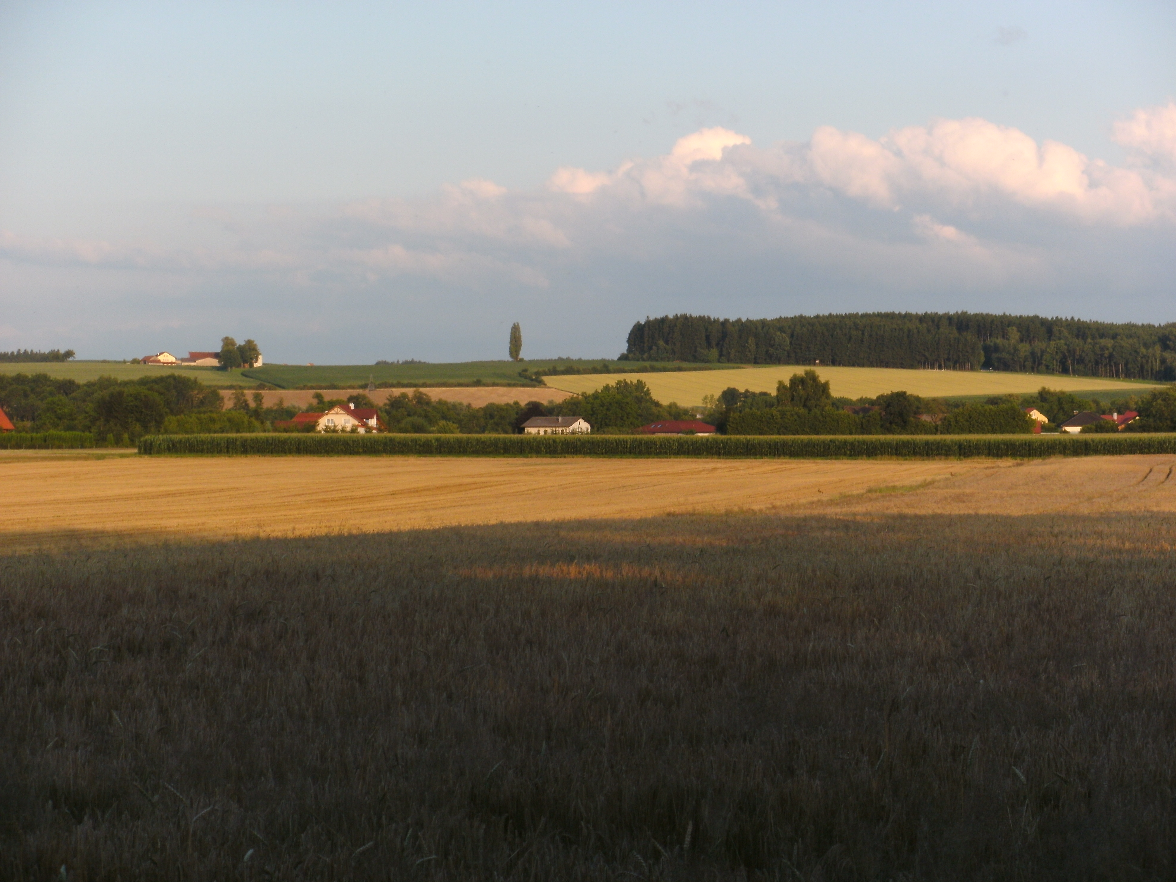 Landscape in Gemeinde Antiesenhofen